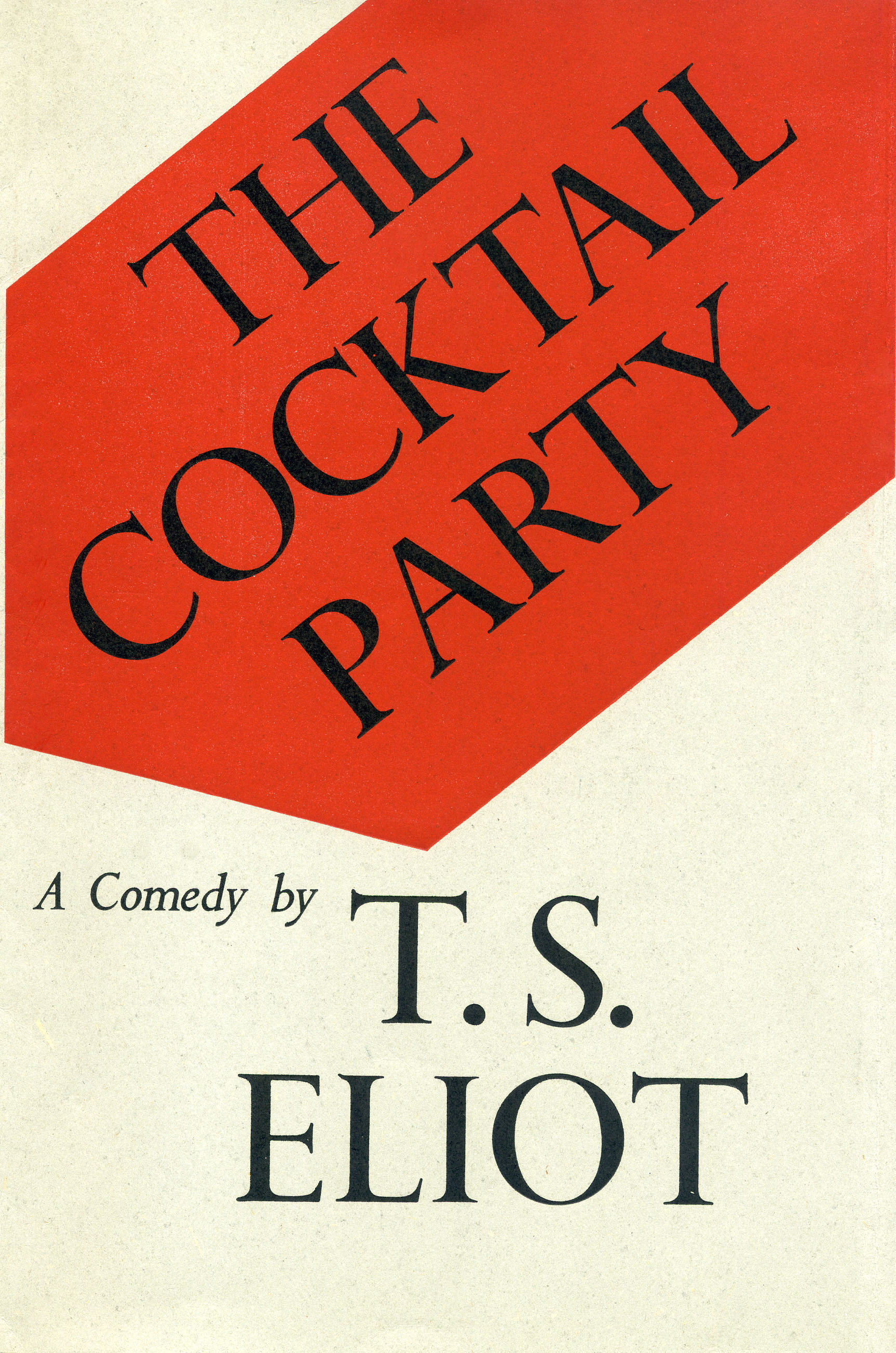 The cover from Faber & Faber's first edition T. S. Eliot's The Cocktail Party" published 1950